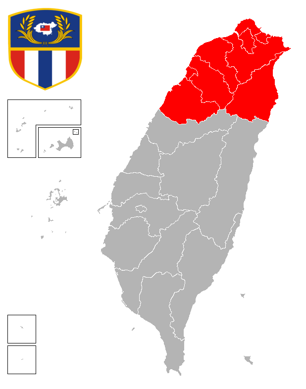 Republic of China (Taiwan) 6th Army Corps map